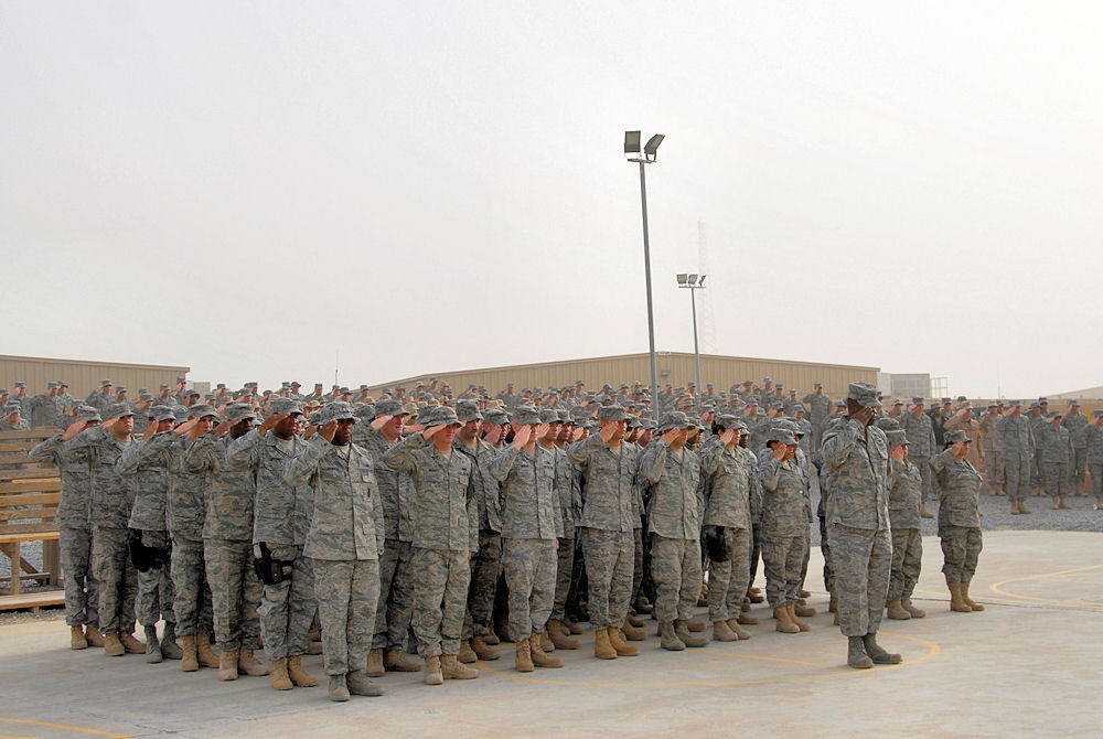 formation of Airmen deployed to the 387th Air Expeditionary Group lead the 386th Air Expeditionary Wing as they render a salute during a Memorial Day ceremony May 26, 2008 at an air base in the Persian Gulf Region. During the ceremony, a 21-gun salute was conducted along with a laying of a wreath to honor the men and women who have died in military service.